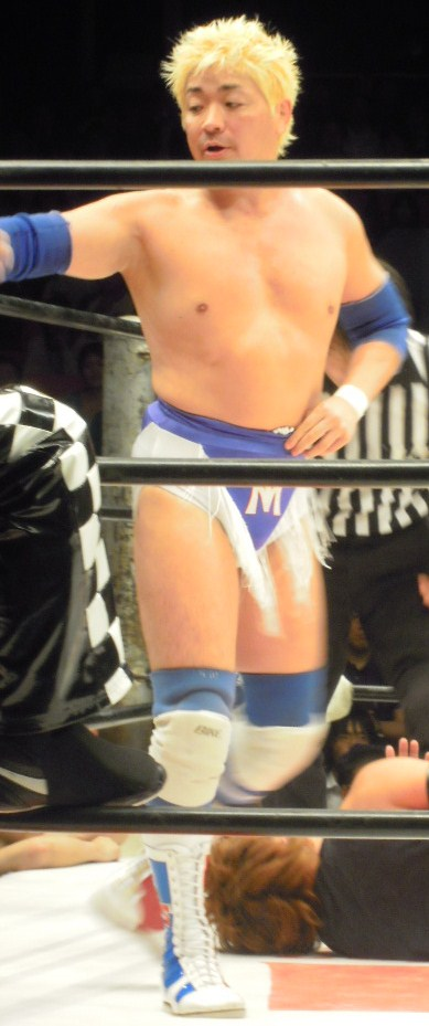 Japanese professional wrestler,Men's Teioh BJW May 28 2010 Korakuen Hall.